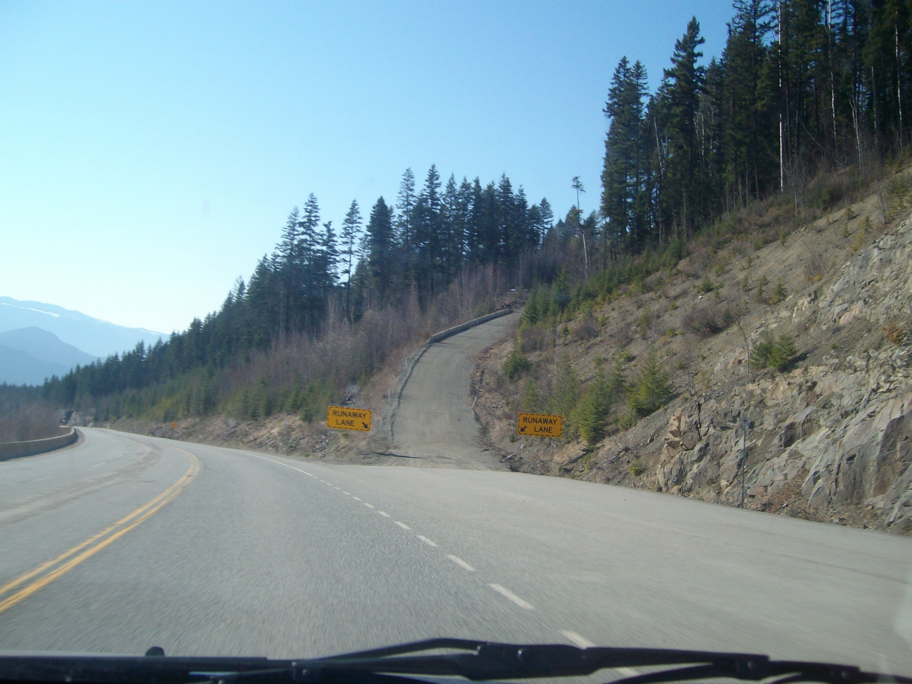 Highway #24 near Little Fort, BC. photo was taken April of 2011